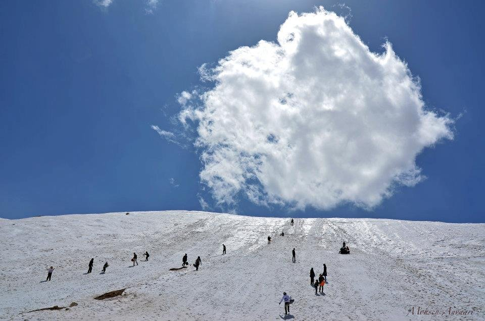 Pooladkaf is not only a place for skiers, a lot of other people also enjoy there and slide on the snow by other means.